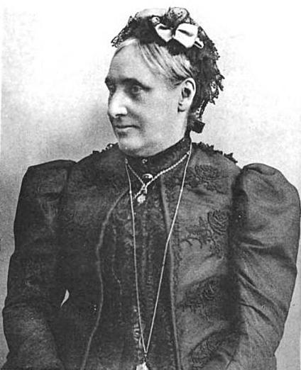 Photograph of Louisa Maria Hubbard published in A Woman's Work for Women by Edwin A. Pratt